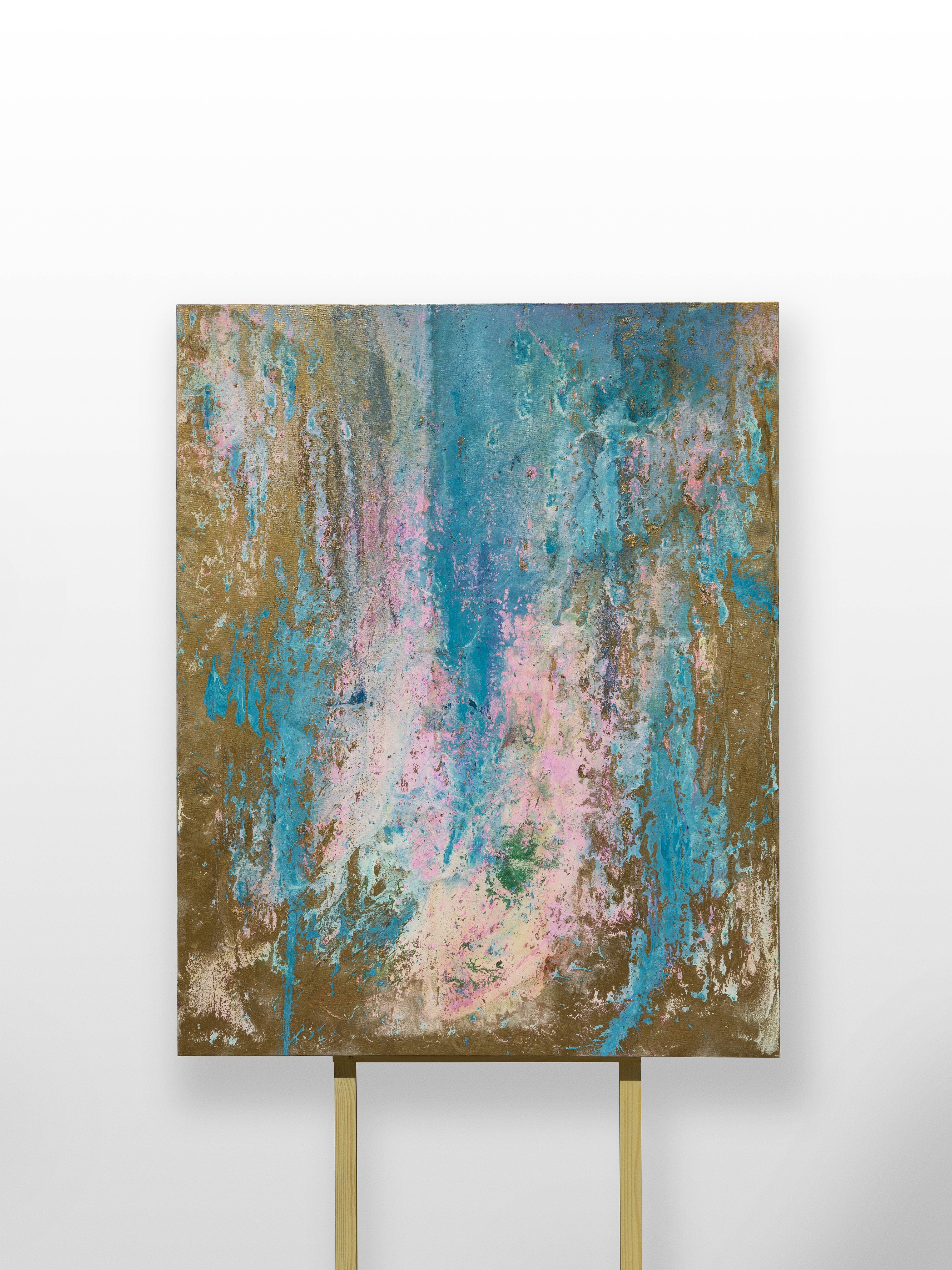 Jack Coulter's painting of Mr. Bad Guy - Freddie Mercury, commissioned by the Freddie Mercury Estate. Photograph taken by Richard Gray, photographic archivist of the Freddie Mercury Estate.